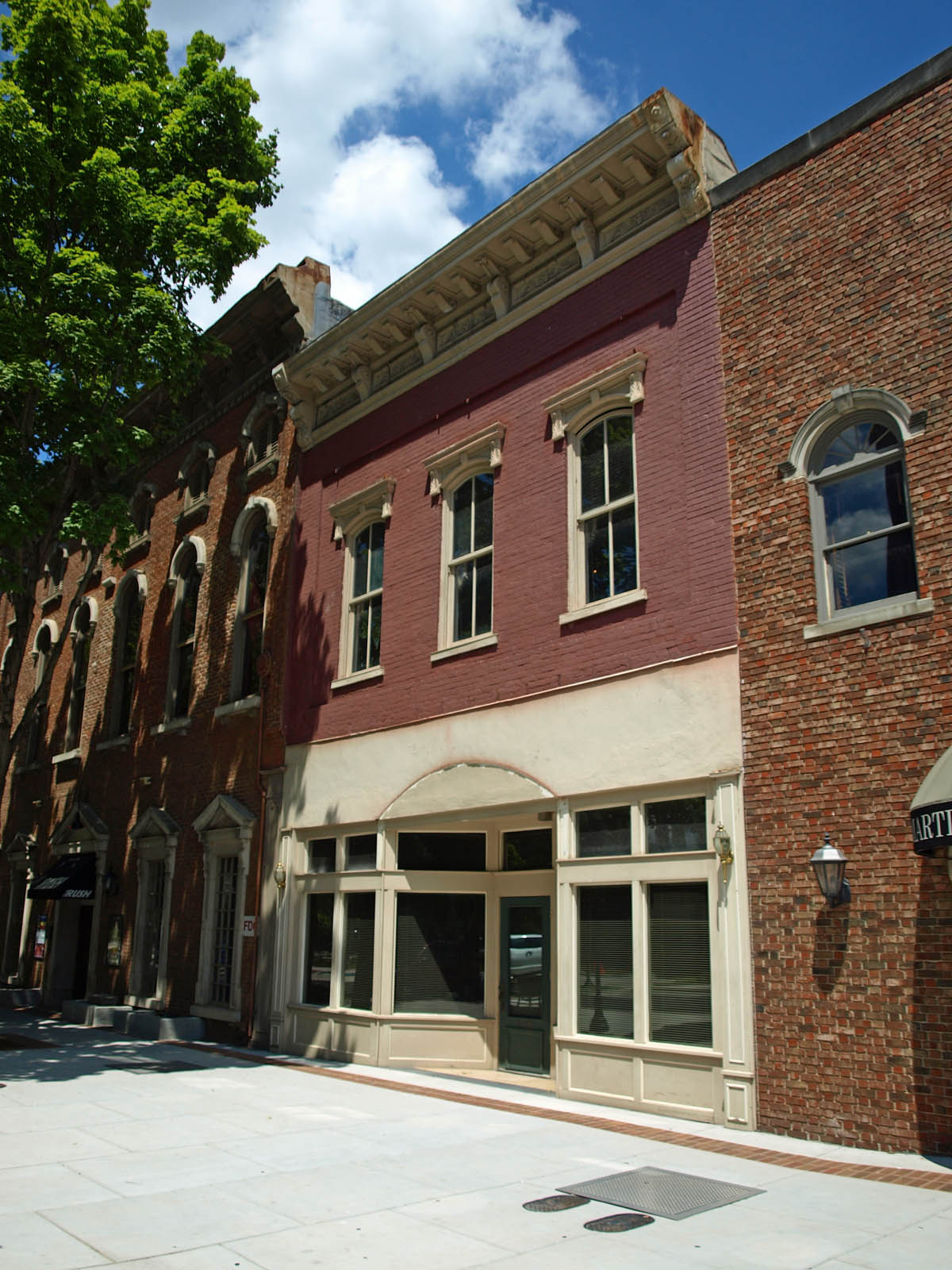 The Rand Building in Huntsville, Alabama, listed on the National Register of Historic Places.